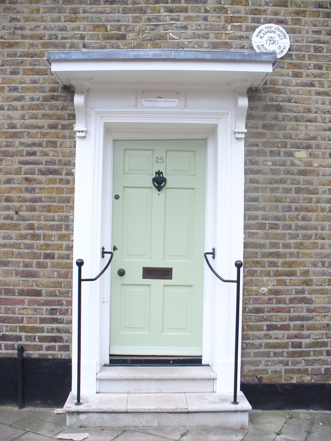 Twickenham Museum Local museum in an historic building which dates back to 1720. It is on The Embankment, in front of Twickenham's parish church.